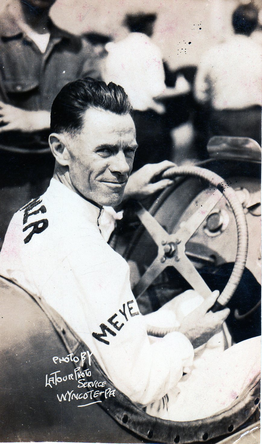 Zeke Meyer Indy 500 race car driver